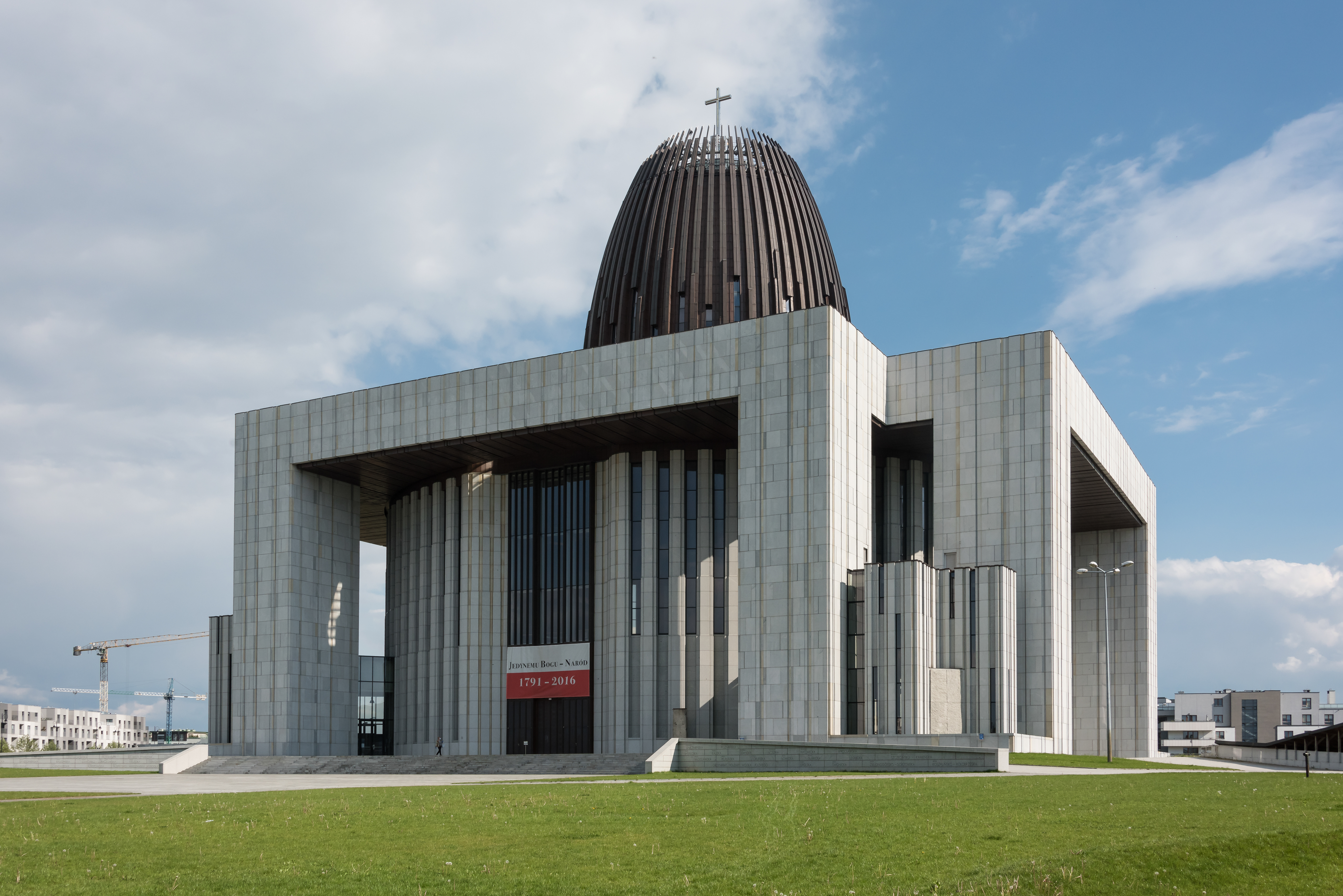 Temple of Divine Providence in Warsaw, view from Prymasa Hlonda Street